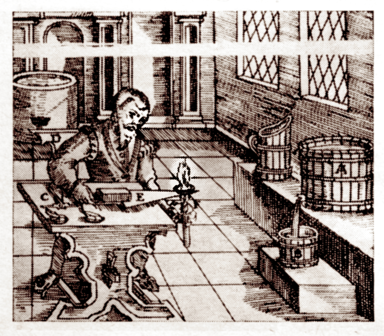 Probirer-Analitk-Praktiker. XVI-XVII c.